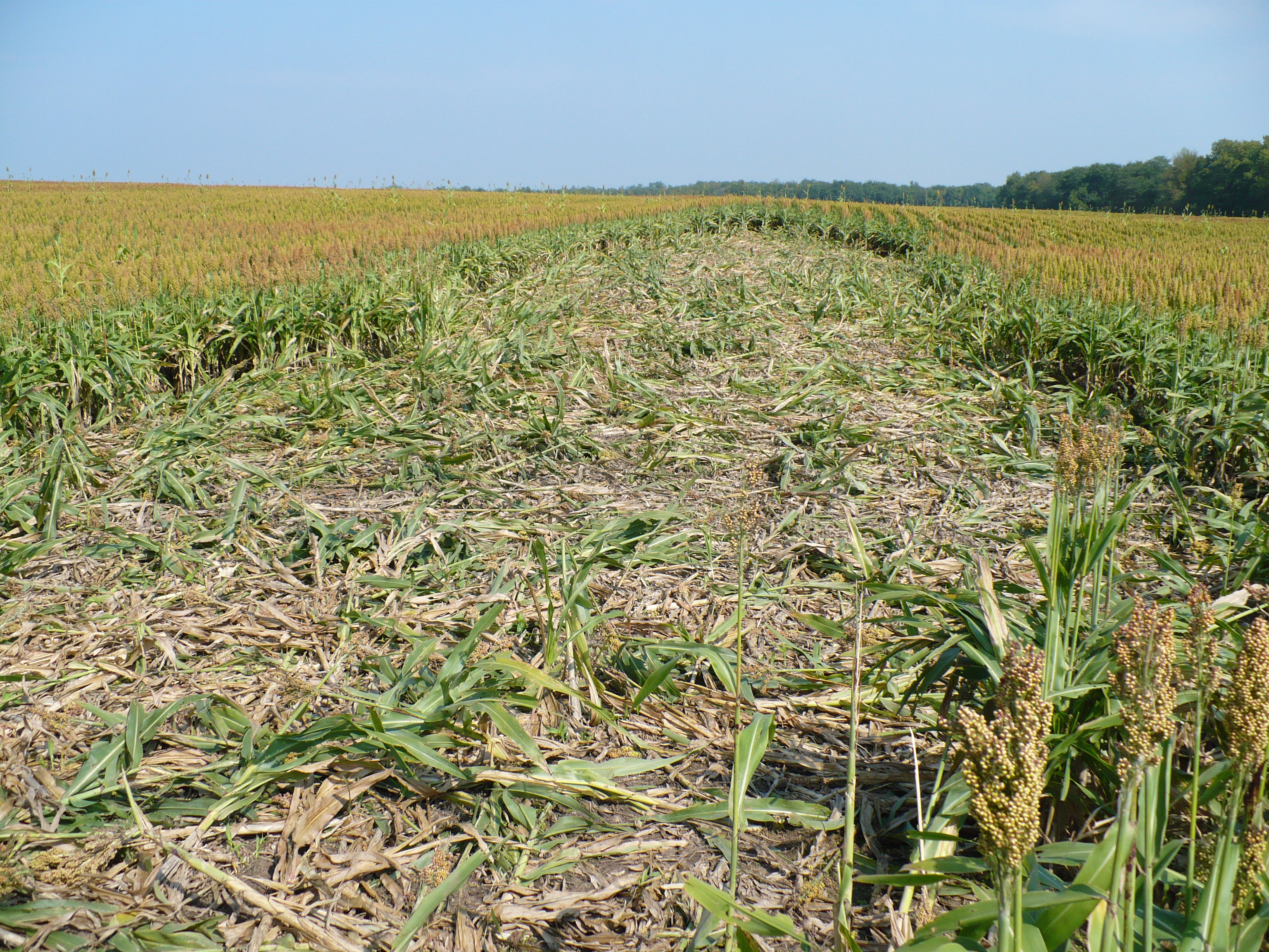 Found in at least 38 states with a population of more than 5 million, feral swine cause approximately $1.5 billion in damages and control costs in the U.S. each year. Eight hundred million of this estimate reflects direct damage to agriculture. USDA photo by Tyler Campbell.